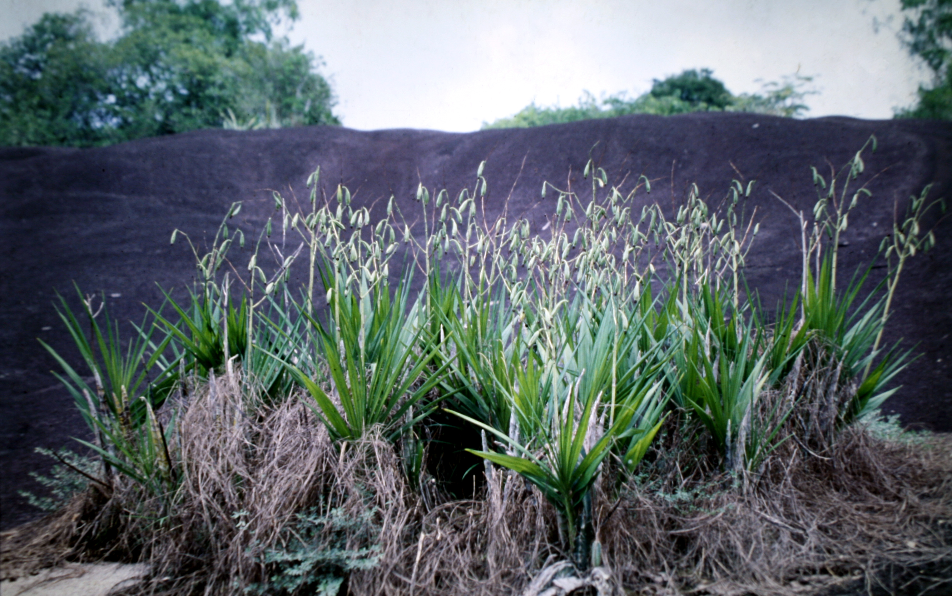 Cyrtopodium andersonii growing on granite flat, Suriname.